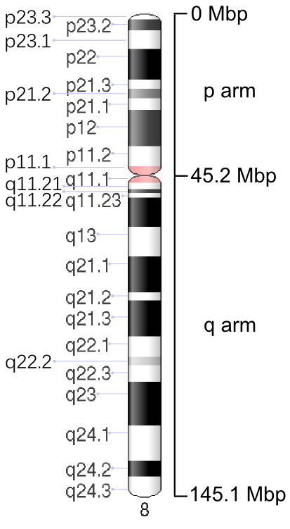 Ideogram of human chromosome 8. G-band, 550 bphs (bands per haploid set). Black and gray: Giemsa positive. Red: Centromere. Light blue: Variable region. Dark blue: Stalk. Mbp: Mega base pairs.